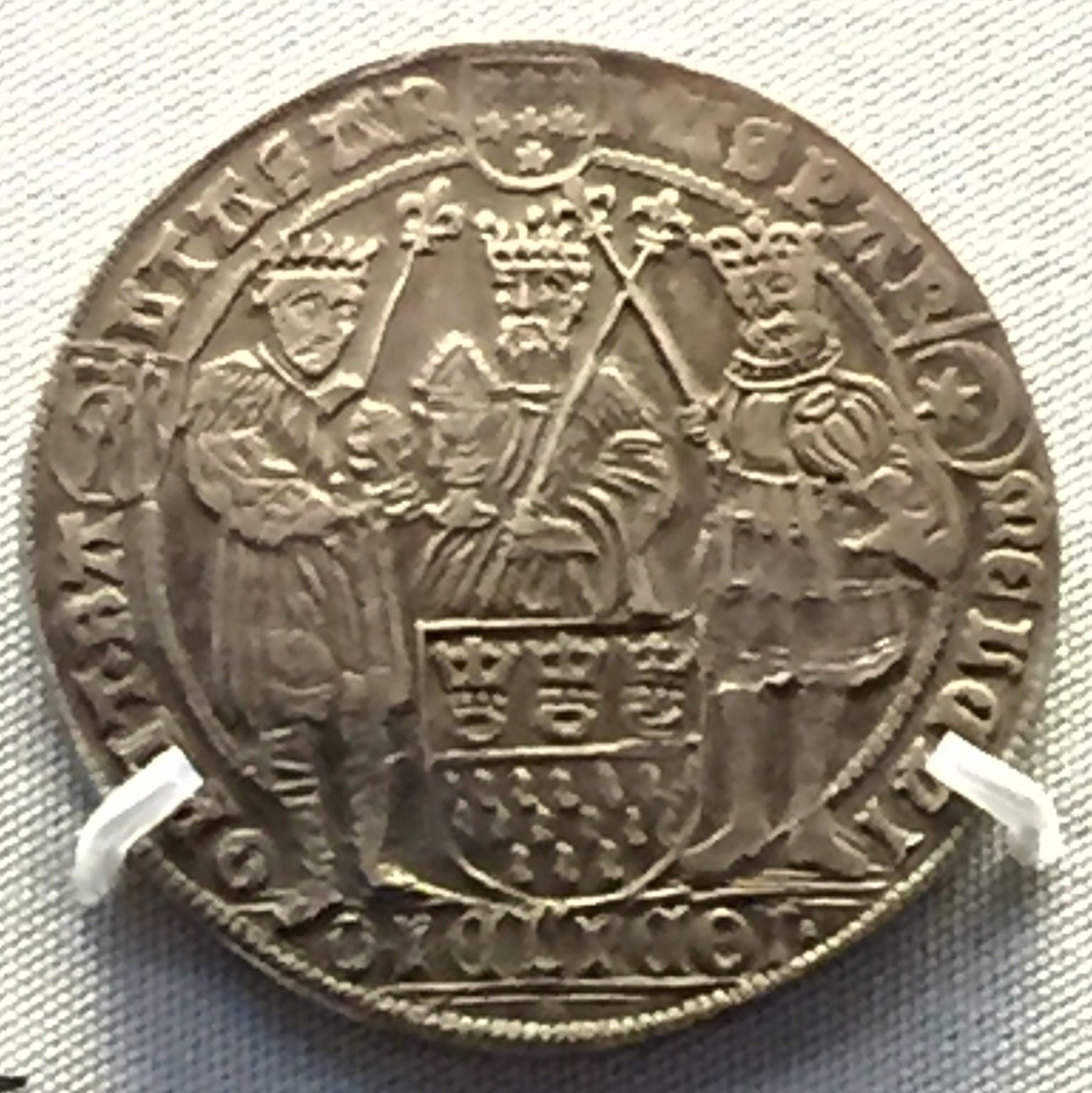 2-thaler silver coin struck in Cologne in 1516. It depicts the Magi, whose remnants are said to be preserved in the cathedral of that city. British Museum, London, UK.